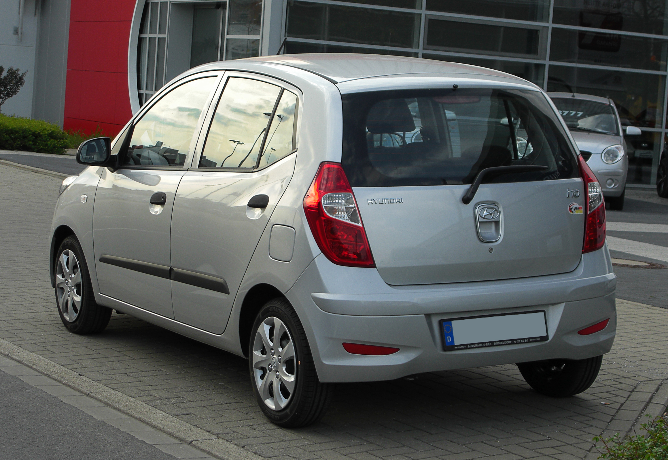 Hyundai i10 1.1 Classic FIFA WM Edition (Facelift)